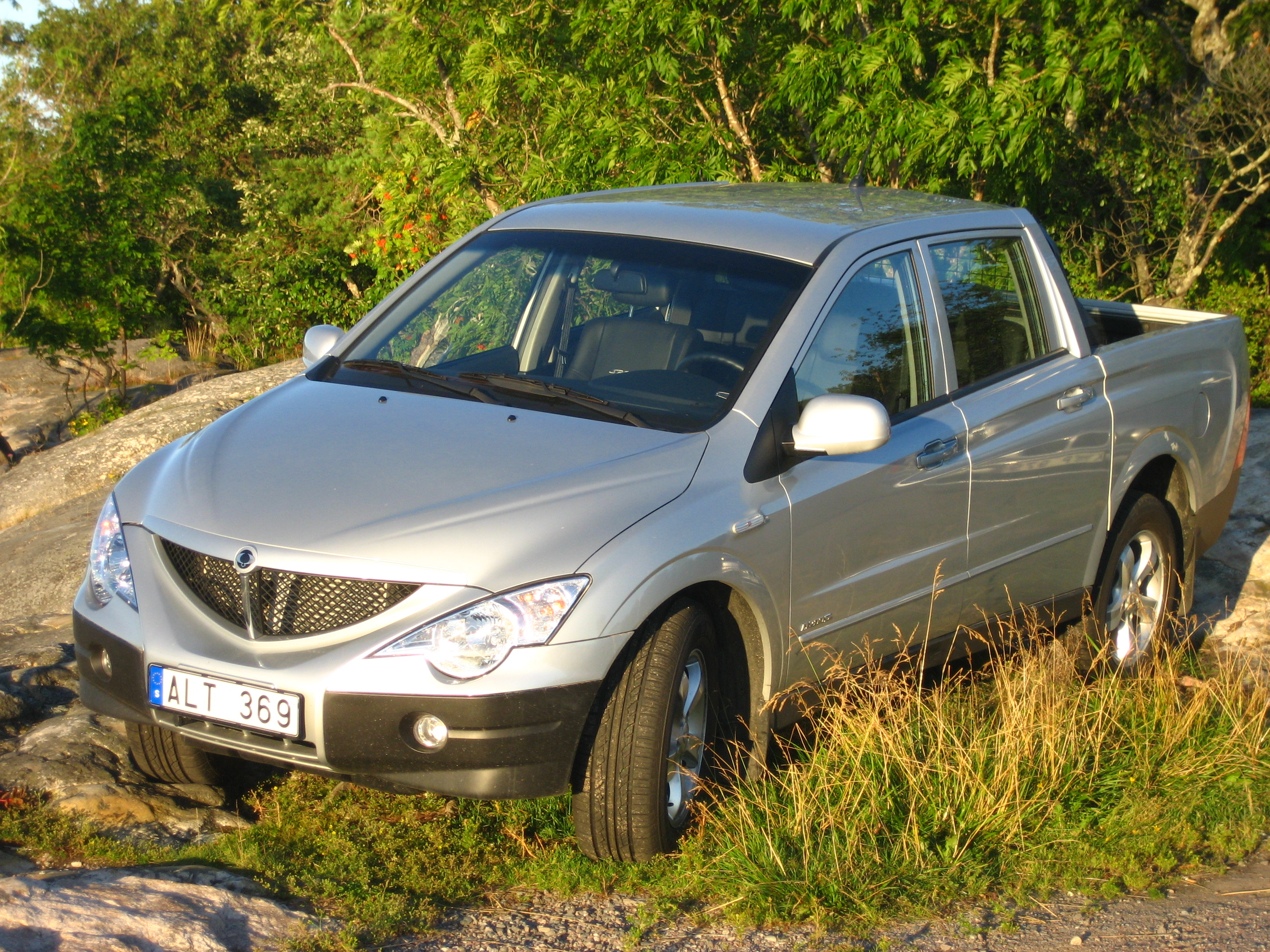 Ssang Yong Actyon Sports on Gräsö island, Sweden.